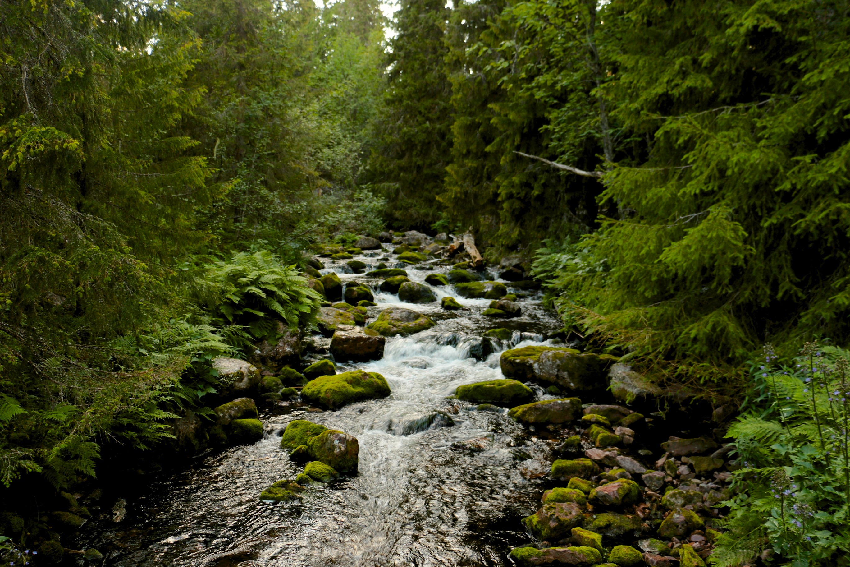 Njupån river, in the forest down Fulufjället